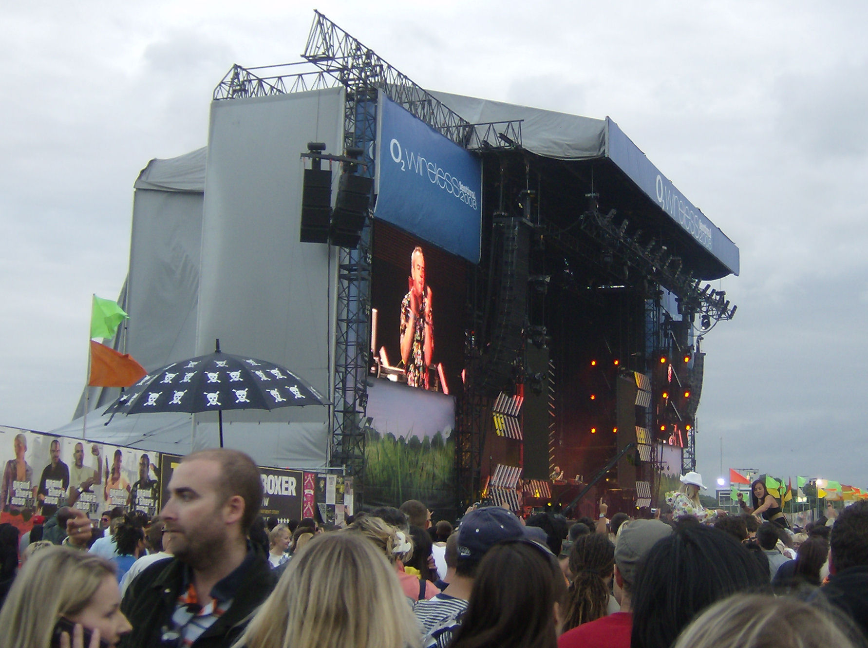 DJ Fatboy Slim headlines the main stage at the 2008 O2 Wireless Festival in Hyde Park, London.